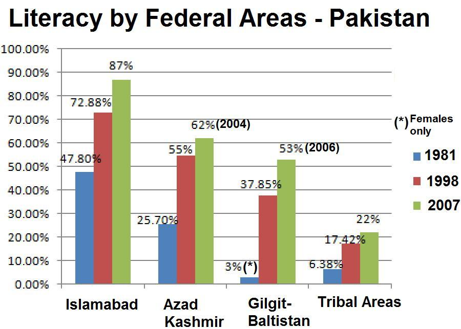 Literacy Rates over time by Federal Areas in Pakistan